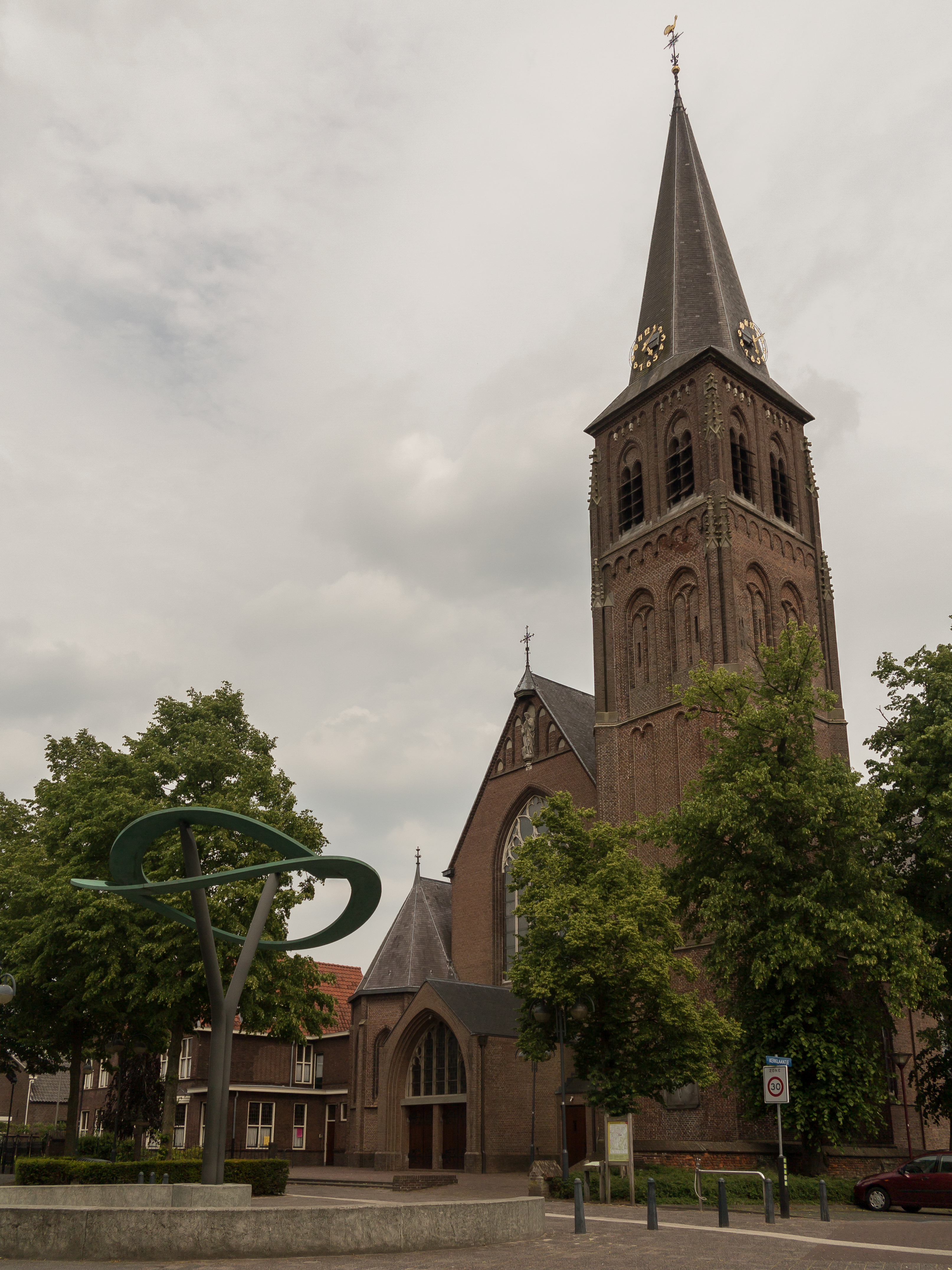 Goirle, church: de Sint-Johannes Onthoofdingkerk